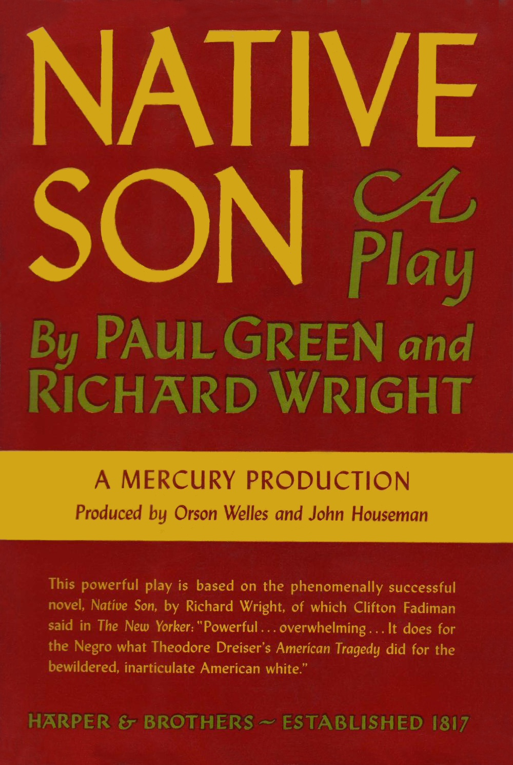 Front cover of the dust jacket for the book Native Son (The Biography of a Young American), a play in ten scenes by Paul Green and Richard Wright, a Mercury Production by Orson Welles, presented by Orson Welles and John Houseman